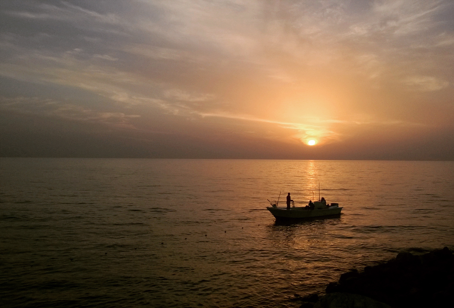 The peaceful place near to a city in Ras Al Khaimah. I spent my whole evening alone with a book and tea in my hand.